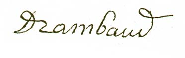 Jacques de Rambaud